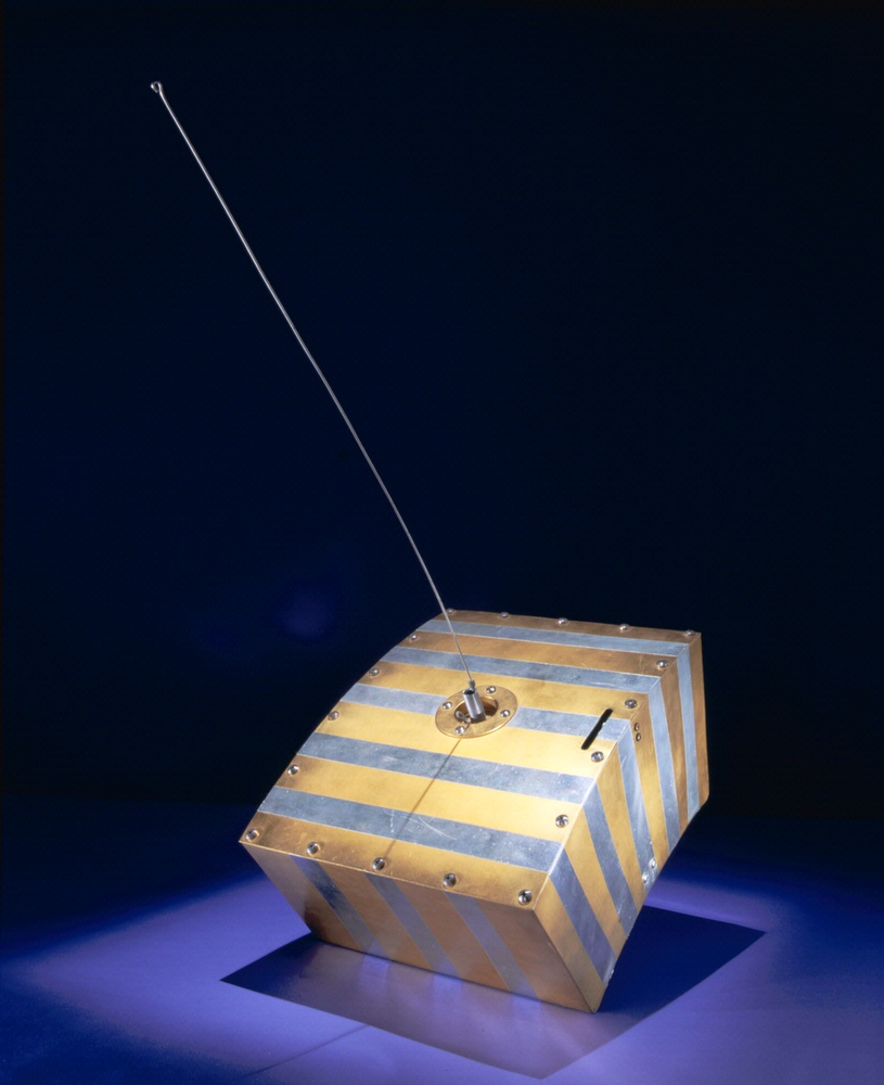 Over 1959-1960, a small group in the San Francisco area conceived Project OSCAR, an effort to place in orbit an amateur-designed and built satellite. This official undertaking of the American Amateur Radio League (AARL) resulted in the OSCAR 1 satellite, built for a mere $63.